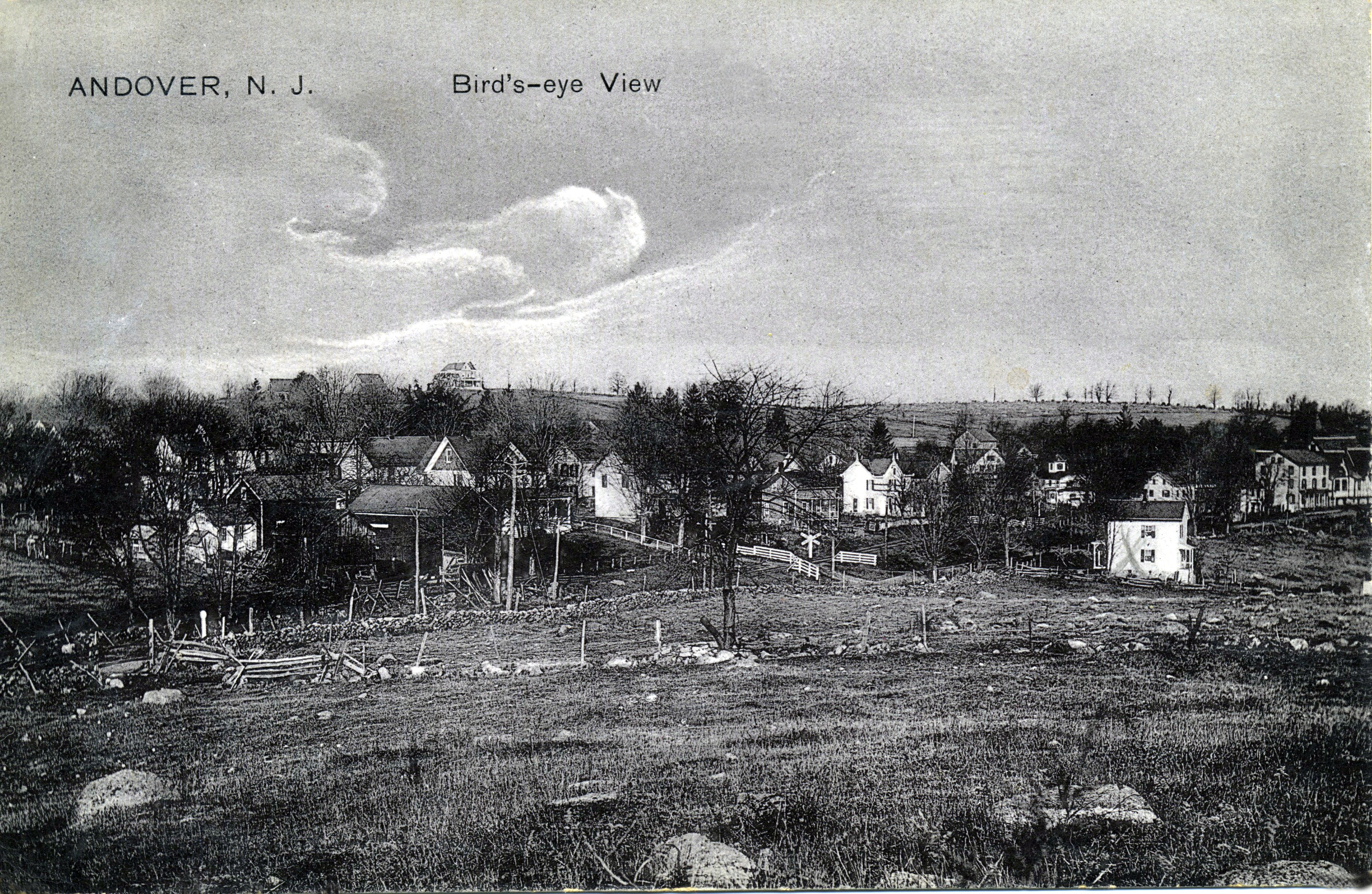 Persistent URL: Subject (TGM): Aerial views; Cities towns; Houses; New Jersey--Andover